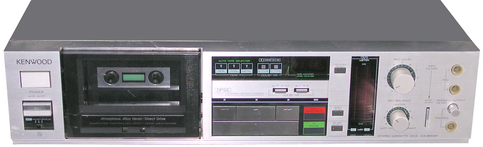 Kenwood XX880SR cassete deck. The picture was worked on; the top side of the equipment was replaced by a color surface.